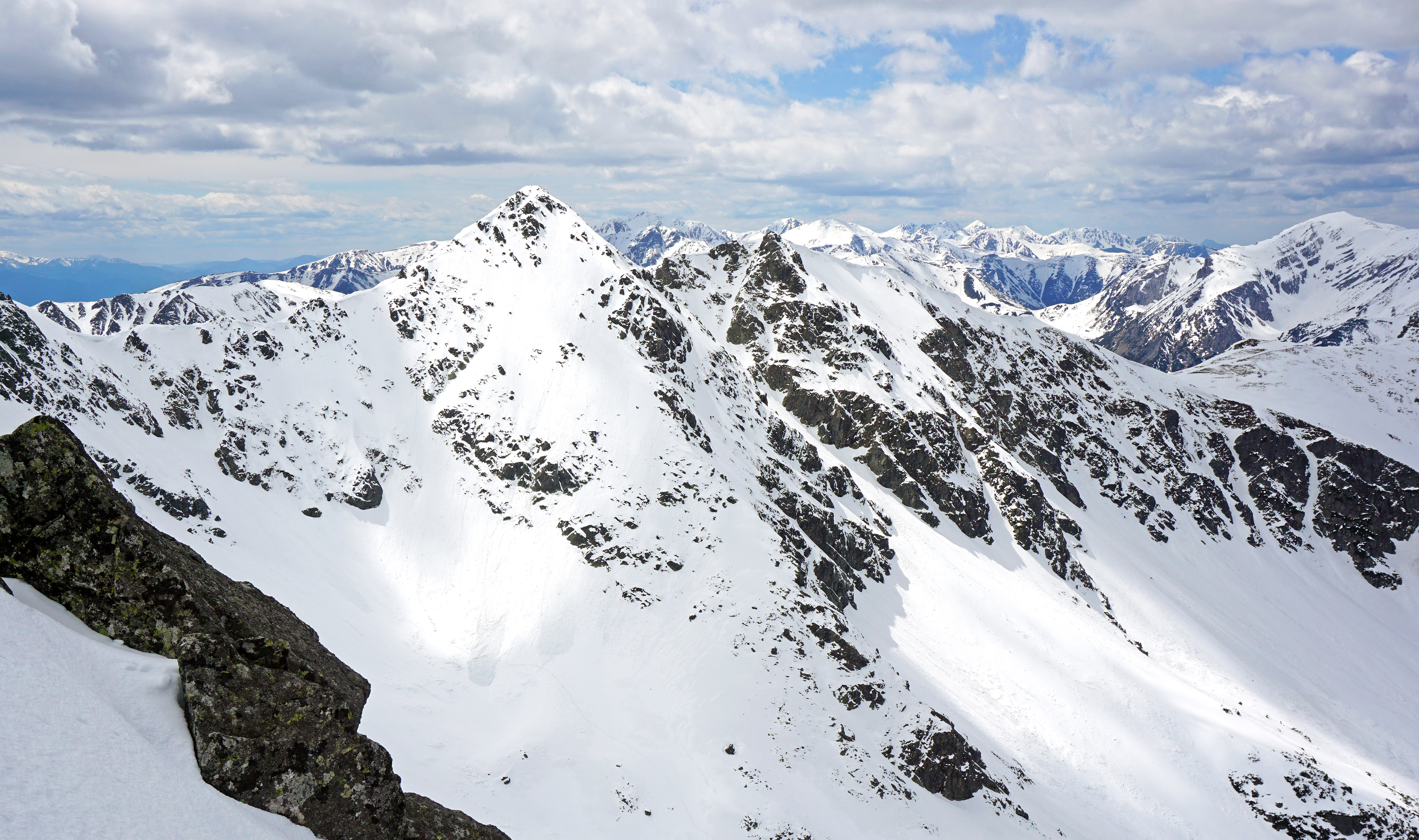 Panoramic view towards Pośrednia Turnia from Kościelec, Tatra National Park, Zakopane, Poland.